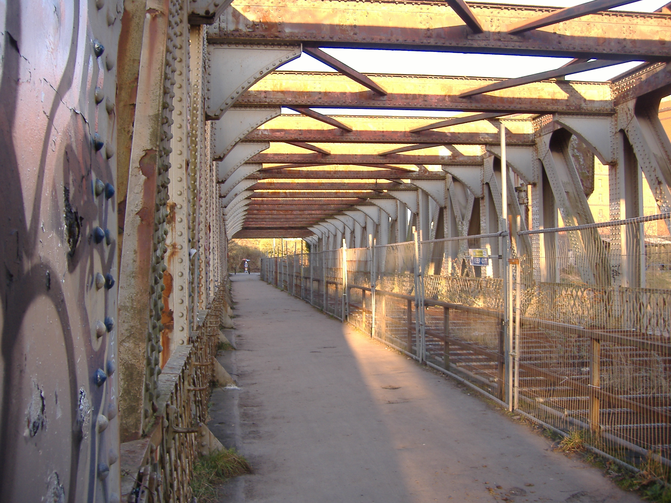 Ashton Avenue Bridge, Bristol.